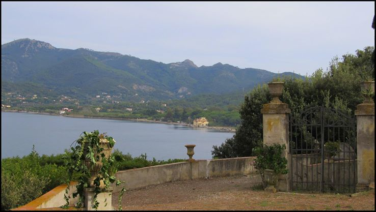 elba island